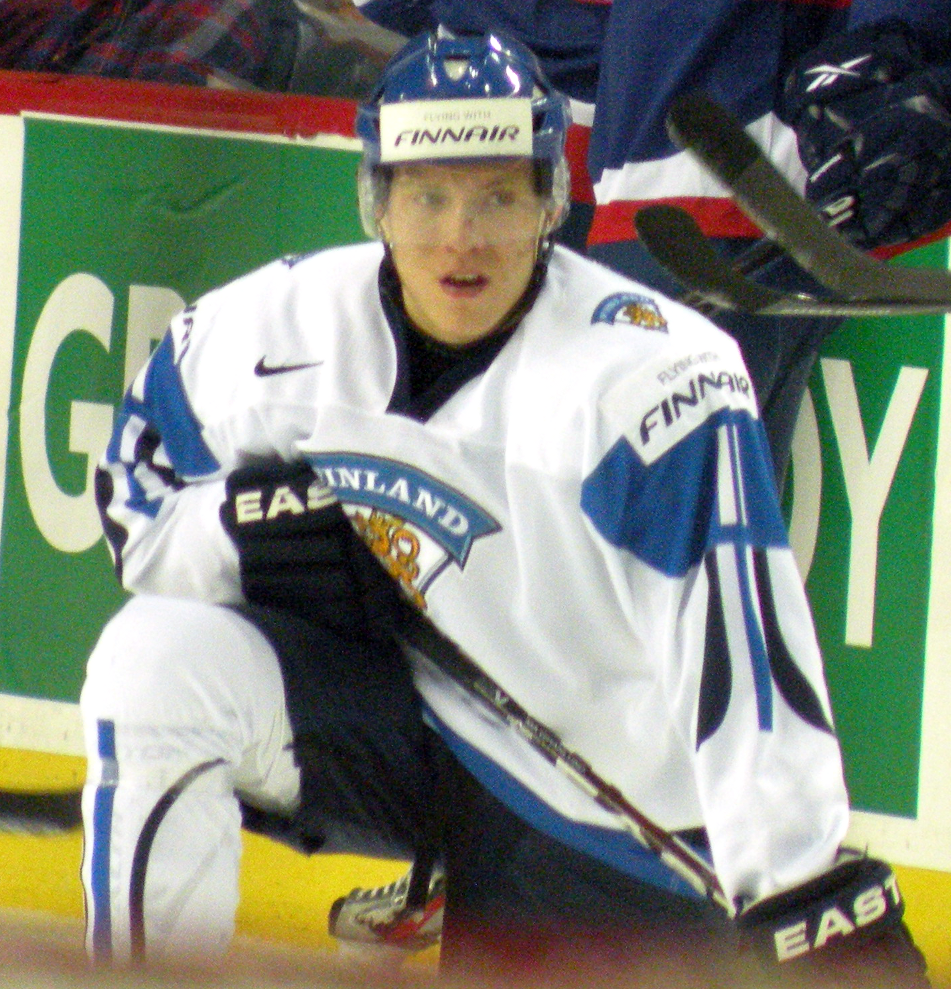 Finnish forward Markus Granlund prior to a game against Team Slovakia at the 2012 World Junior Hockey Championships at Calgary, Alberta, Canada.